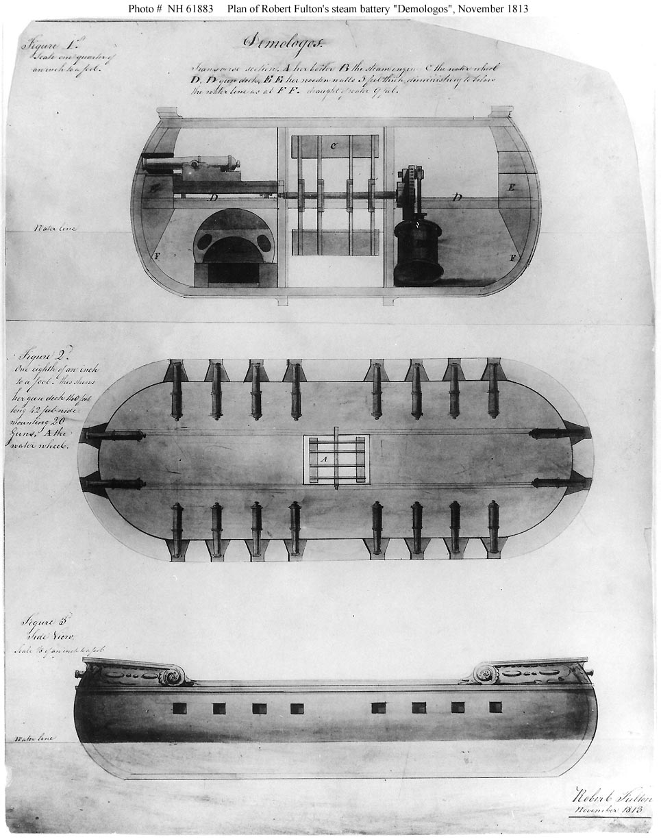 Cross sections of Steam Warship USS "Fulton the First"